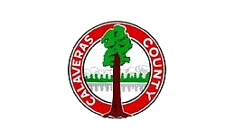 The official flag of Calaveras County, California.